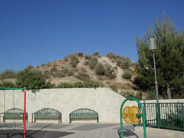 Jerusalem Tumulus #2; Jan-29-2005 Funhistory 04:28, 12 Feb 2005 (UTC) A friend of mine who visits Israel regularly (and prefers to remain anonymous for security reasons) took this photo at my request for our mutual research, and to bring additional attention to this fascinating landmark near Jerusalem. There is no copyright on the photo. It did not come from the Internet. The original file size is 2048x1536, which I still have a copy of. I reduced it to 640x480 for Wikipedia since that is sufficient for the Tumulus article. We also have photos of the other tumuli in the vicinity, but we felt this one would be suitable to represent the group on Wikipedia.--Funhistory (talk) 06:33, 27 January 2011 (UTC)